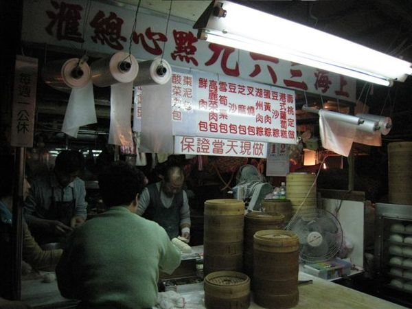 Guting369